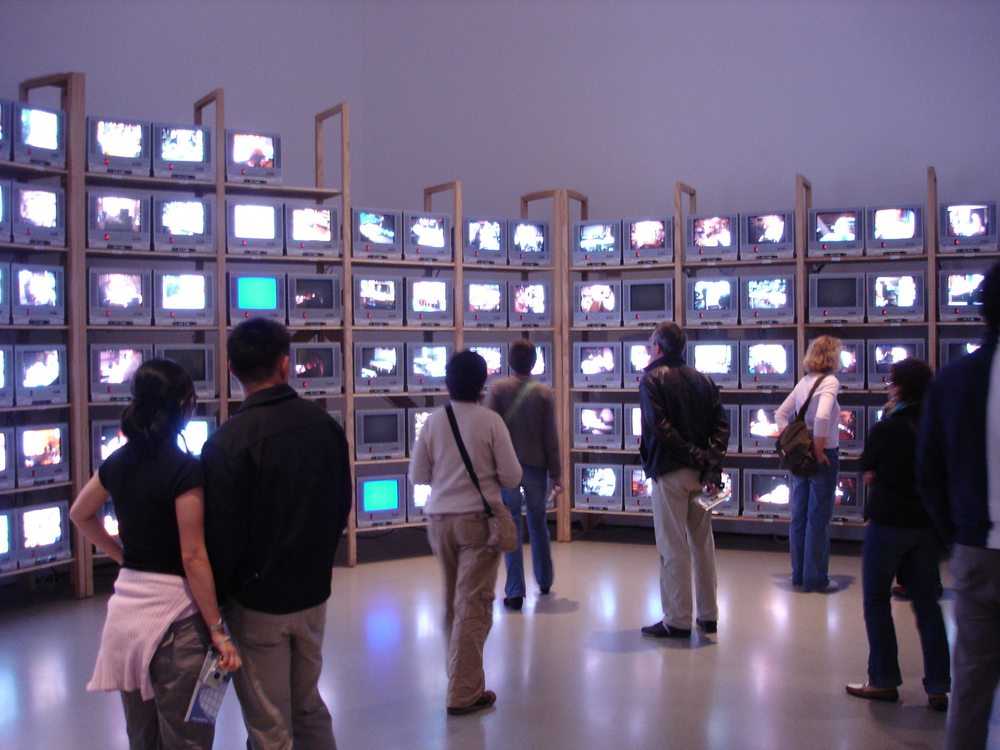 Museum of Modern Art, New York City, USA